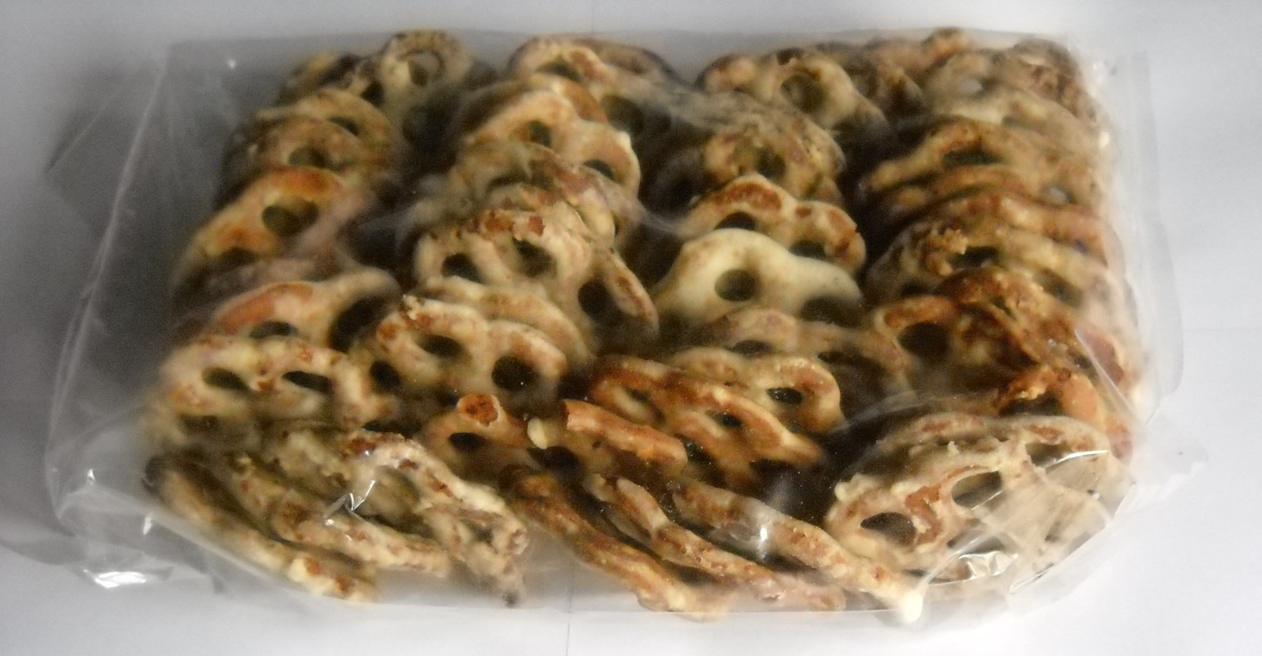 A large pack of Kuih cincin from Sabah, Malaysia.